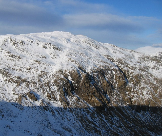 Southern cliffs of Creag Mhor.